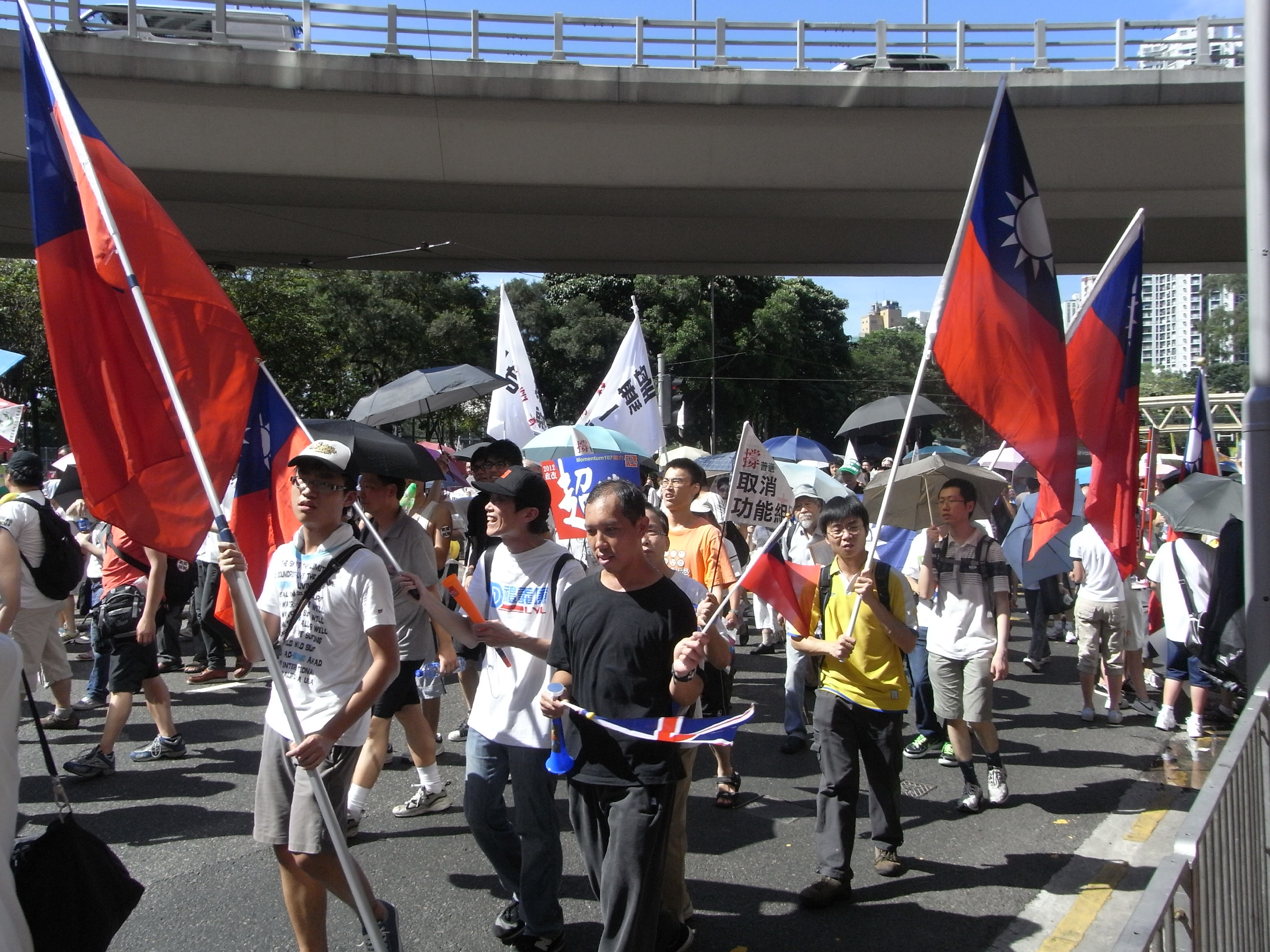 Hong Kong 1 July marches